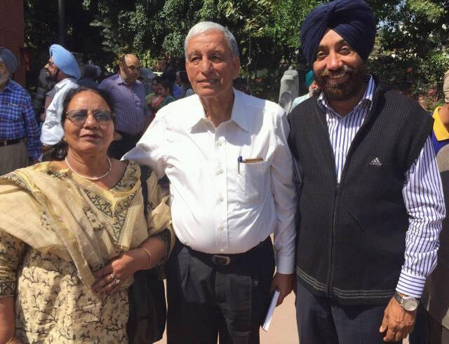 Punjabi writers - Sultana Begam ,Khalid Hussain and Harvinder Singh at Punjab Art Council . , Chandigarh on occassion of sixth Punjabi conference 11th March 2019